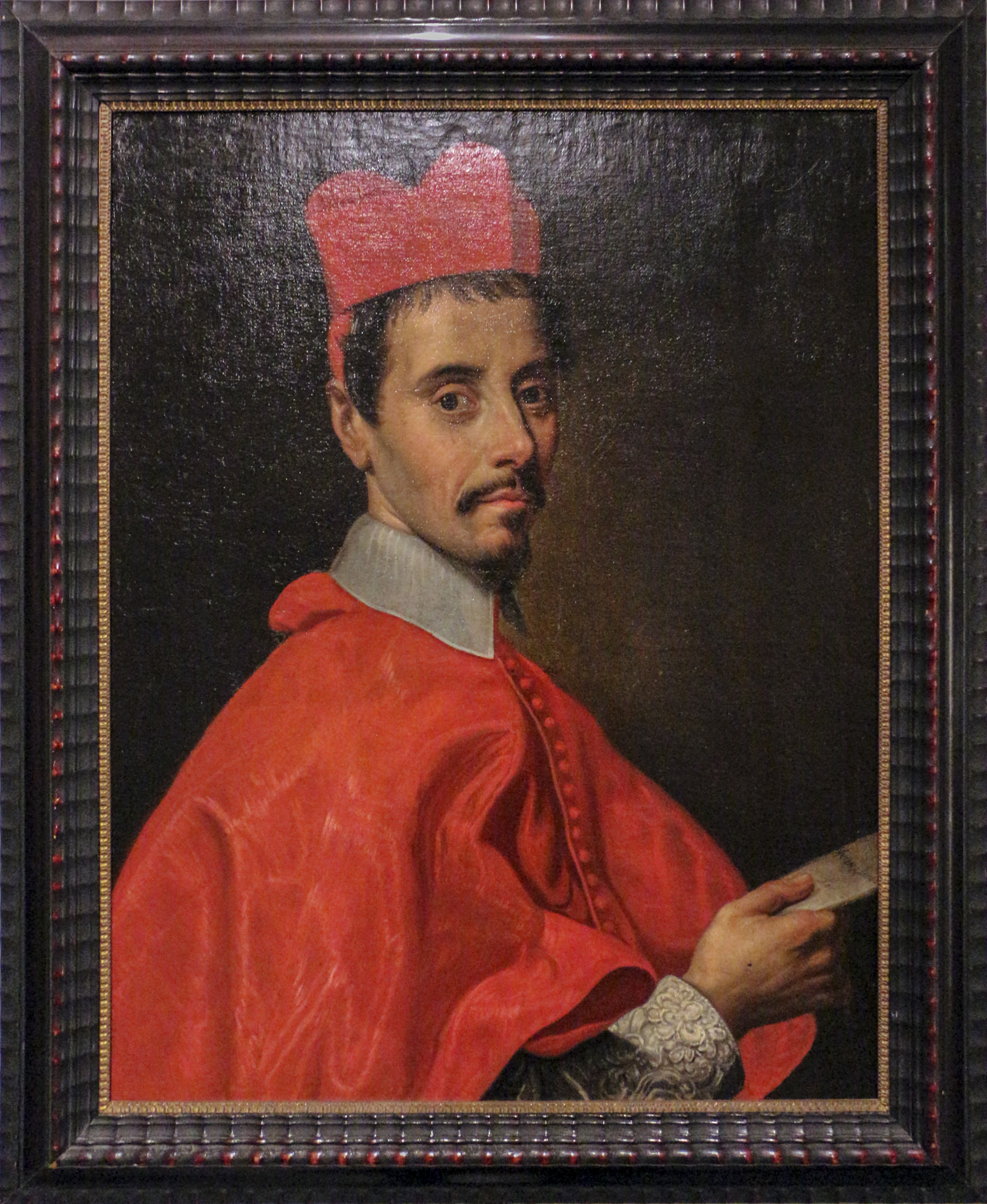 Museo Adriano Bernareggi